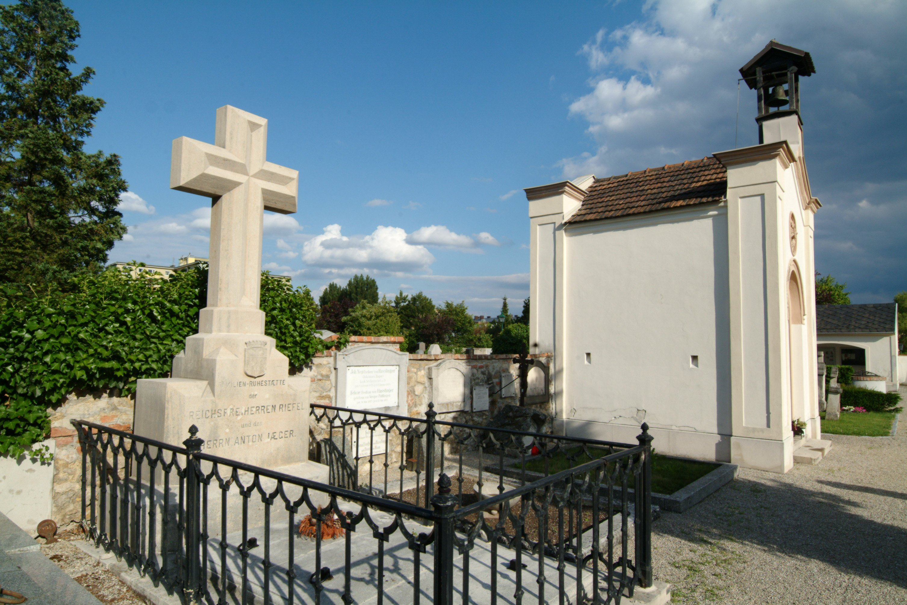 Cemetery "Romantikerfriedhof" in Maria Enzersdorf, Lower Austria